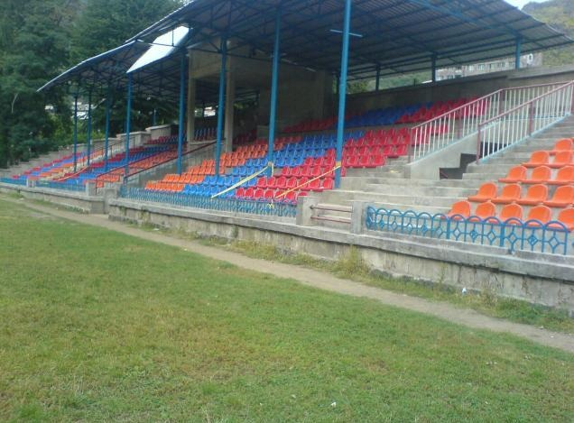 Alaverdi stadium, Armenia